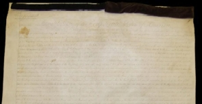 Photo of the Constitution of the Confederate States of America.